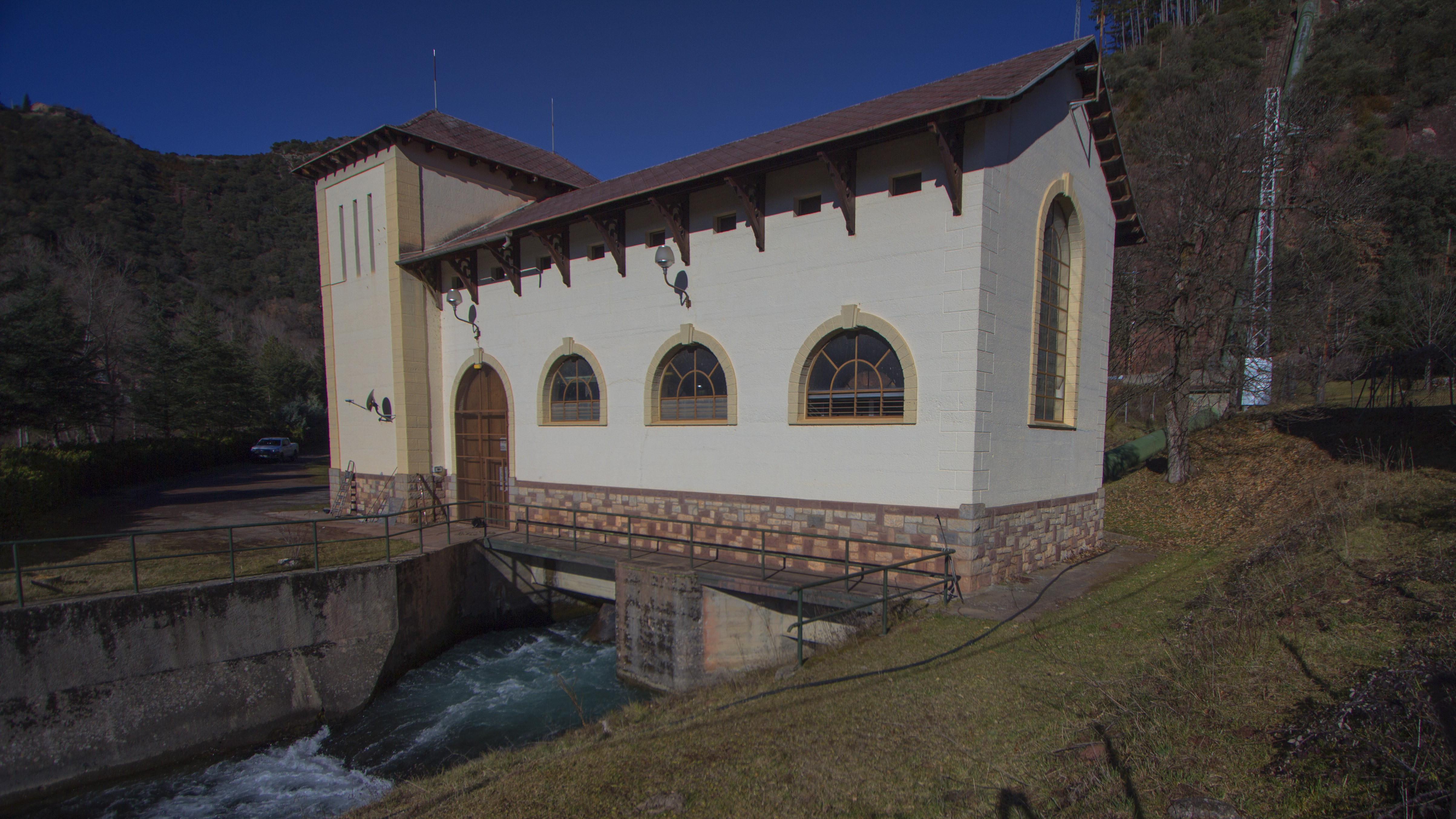 Plana de Mont-ros hydropwer plant. Main bulding. Plana de Mont-ros (Catalan Pyrenees)